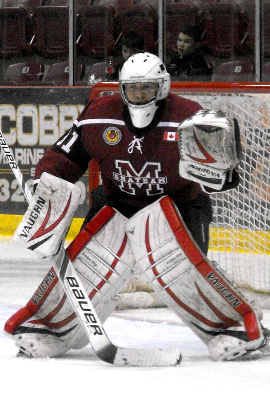 This photo was taken by Devan Mighton during the 2013-14 GOJHL season.